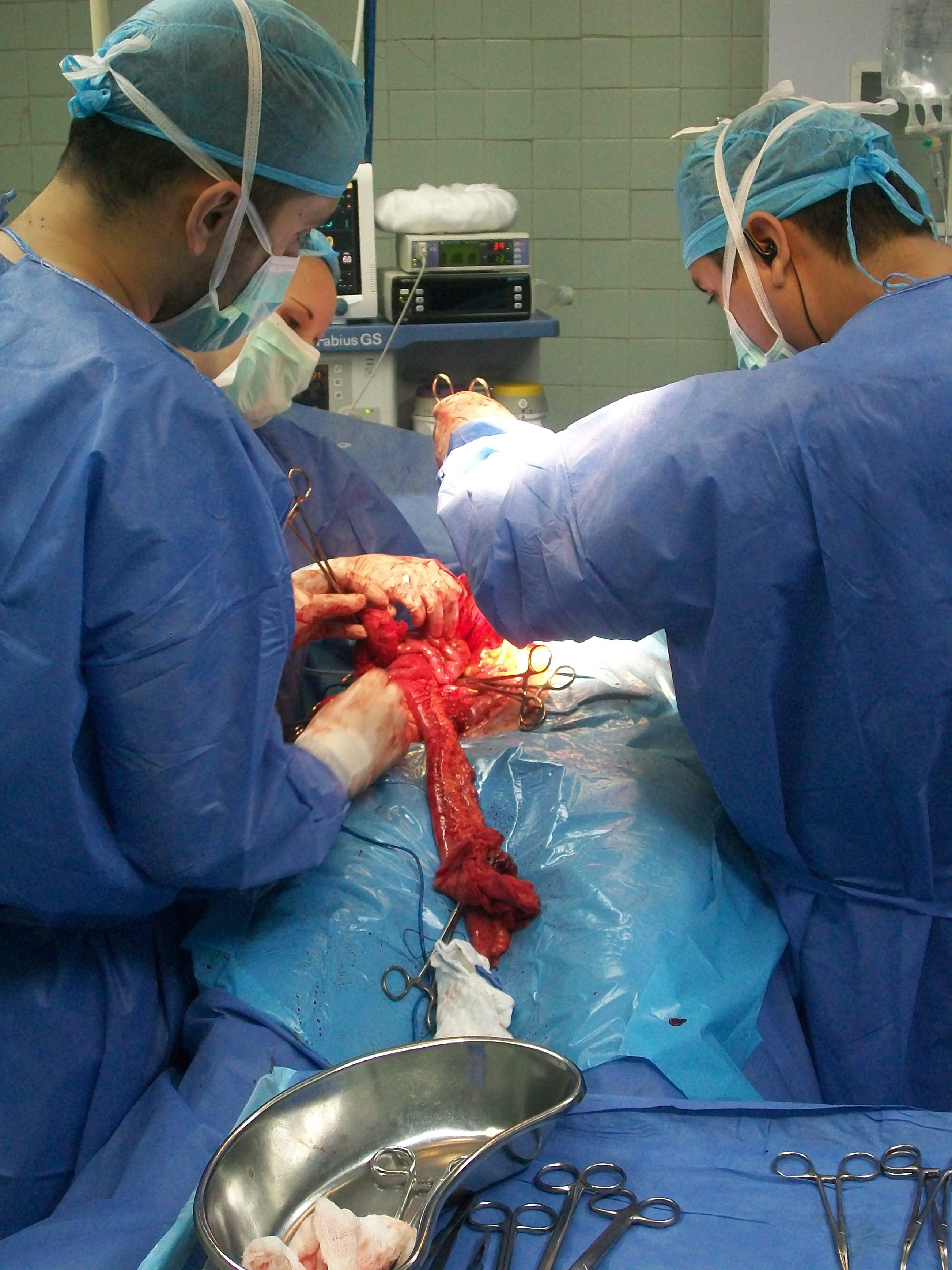 Resection of approximately 70 cm of small boweil from a female patient with an abdominal ballistic trauma.